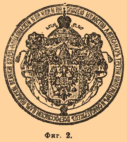 Illustration from Brockhaus and Efron Encyclopedic Dictionary (1890—1907)